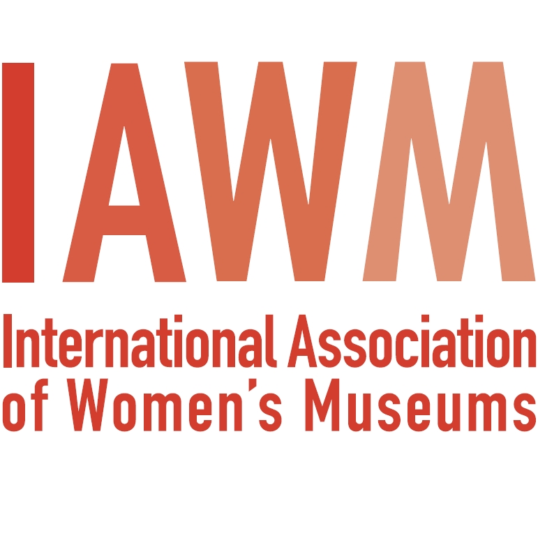 Logo